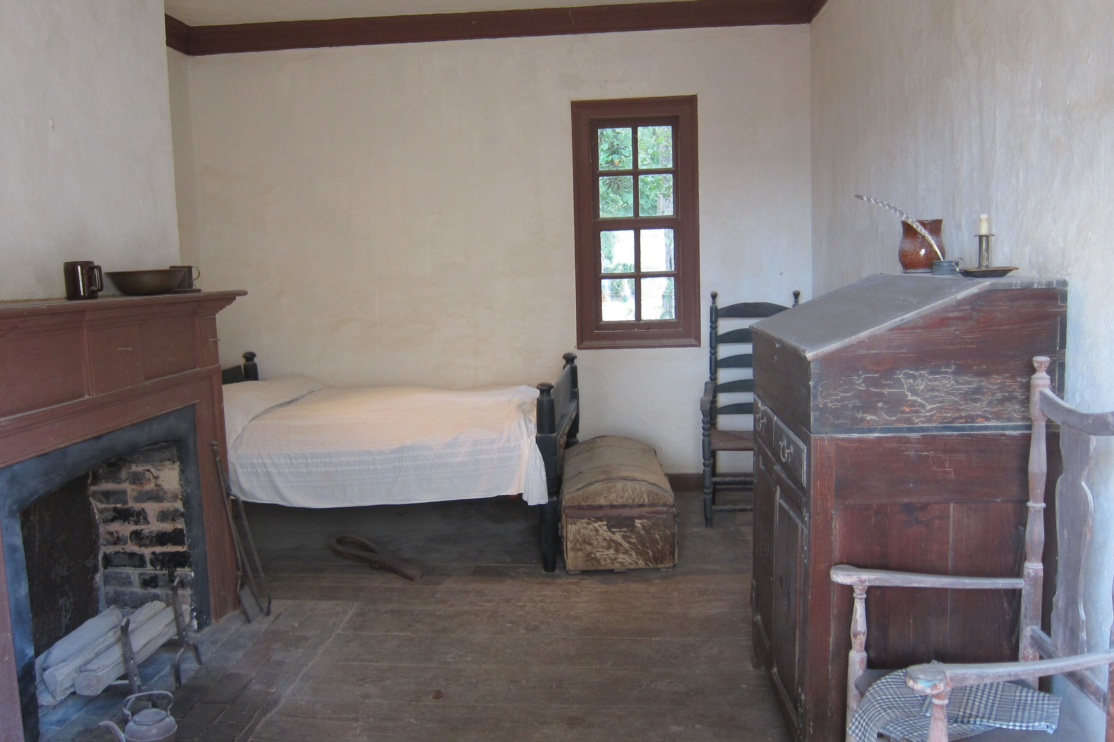 Room accommodation was built for George Washington' clerks.